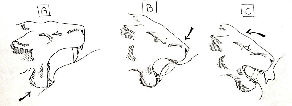 a sequence diagram of the feline machairodont Homotherium using the "shearing bite" hpythesis to wound a prey animal. i have no scanner at my disposal, so i used a samsung camera to take a picture of the drawing, created with an ultrafine sharpie and a sheet of standard printing paper. from there it was uploaded, the contrast and brightness modified to be as clear as it was on the sheet origionally, and uploaded here.